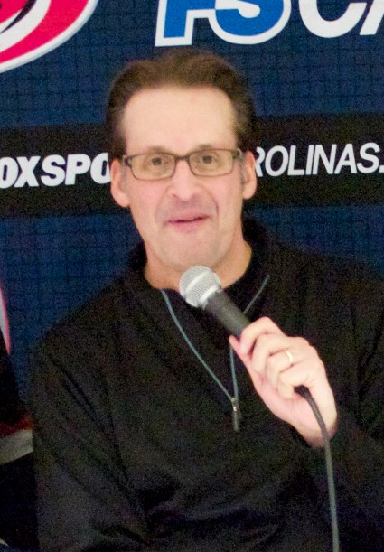 Skate with the Canes 2012 (February 5th) : John Forslund